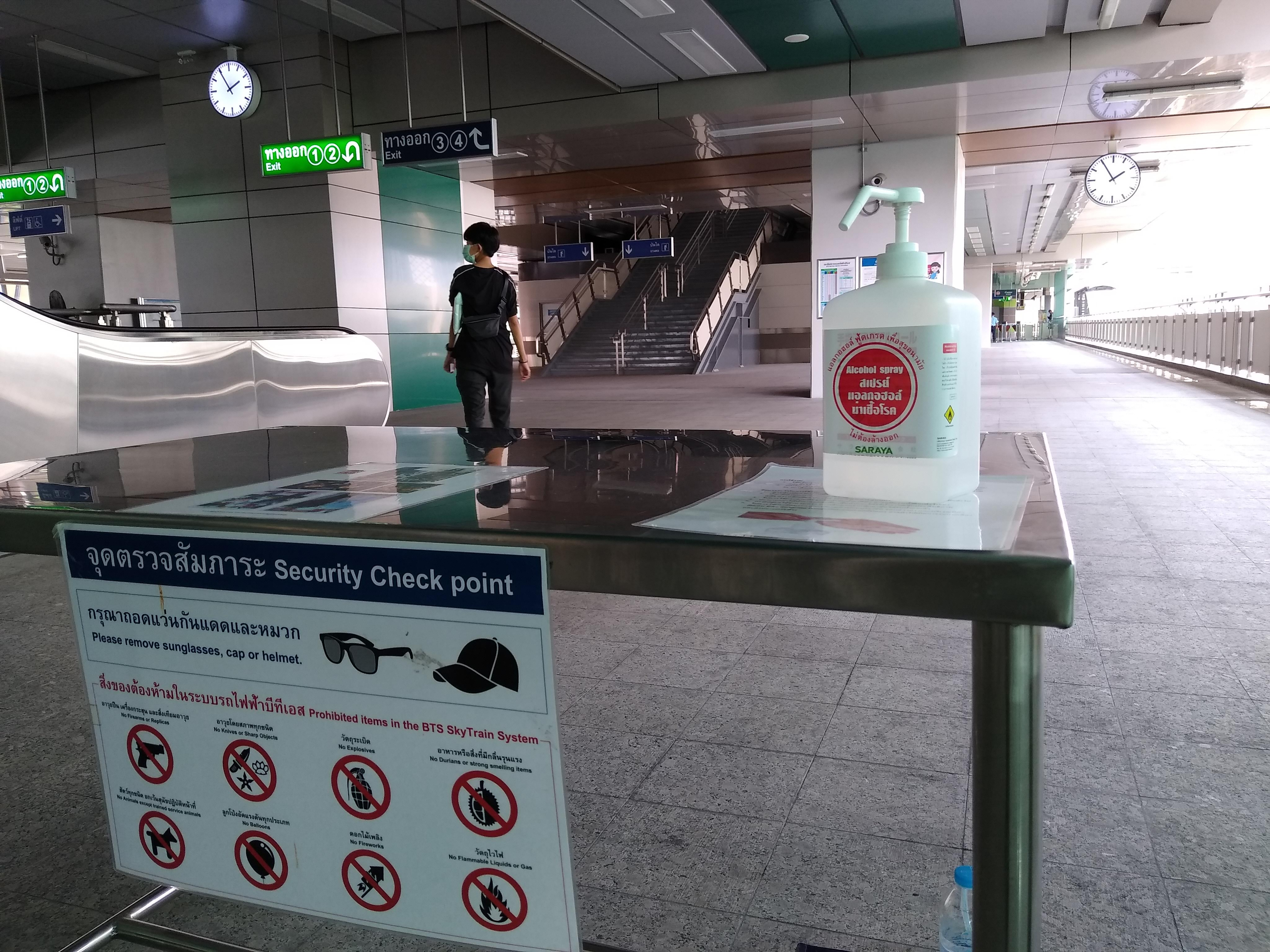 A bottle of alcohol spray for passengers to use at Ha Yaek Lat Phrao Station in Bangkok on March 1, 2020 amid the COVID-19 outbreak.